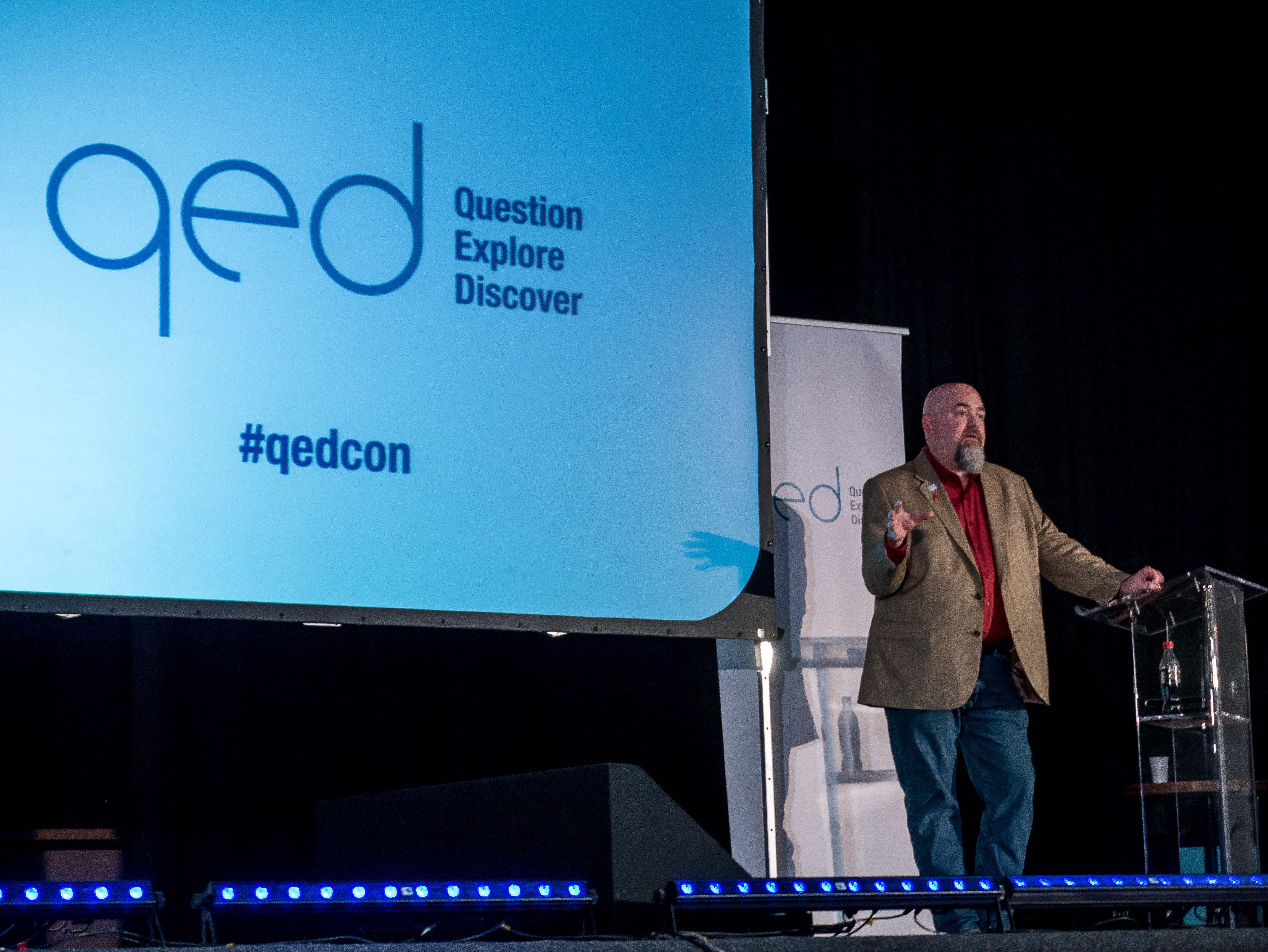 QEDCon Day One-39 QEDCon 2015